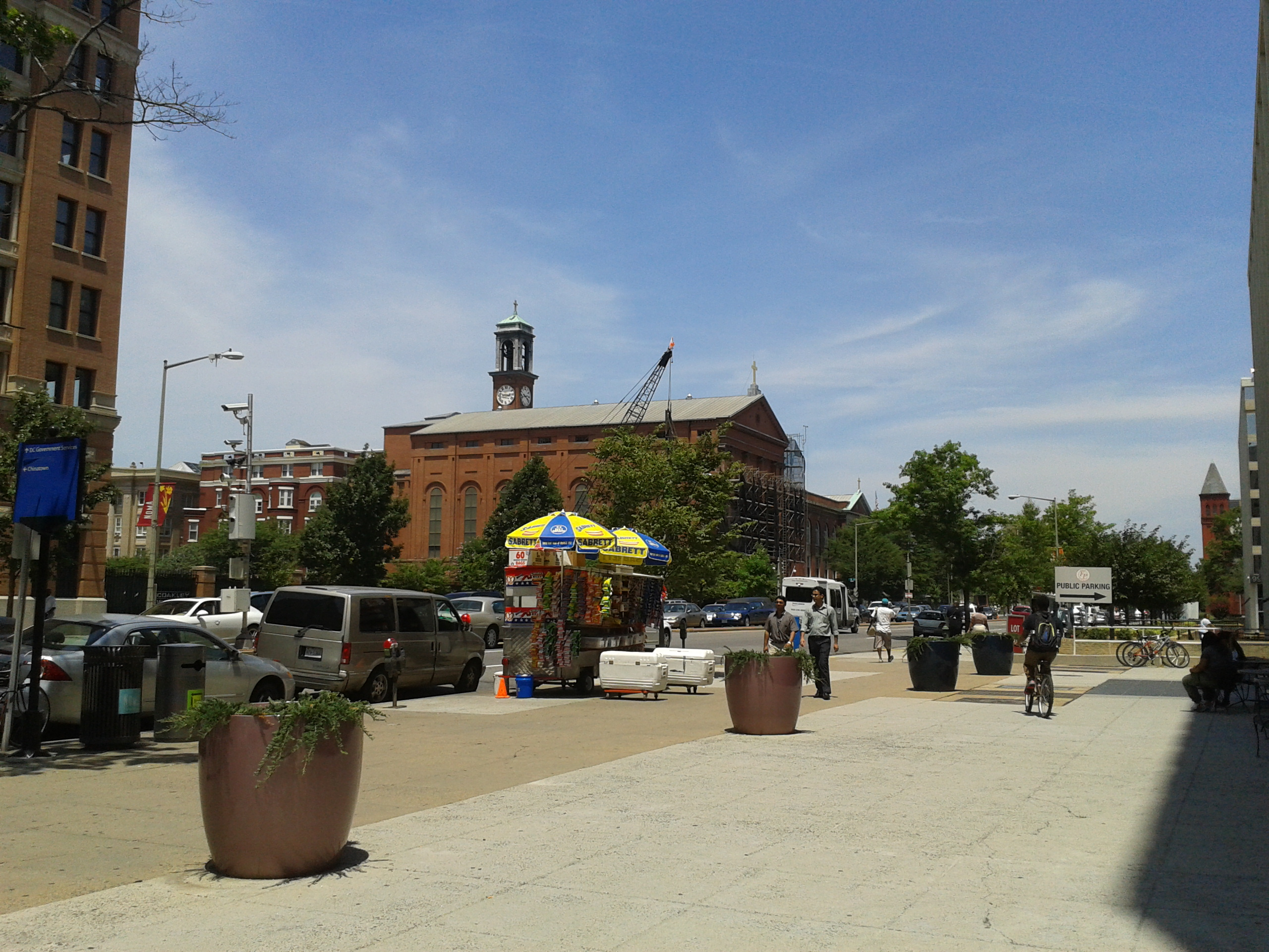 North Capitol Street, Washington, DC - in the distance may be seen Gonzaga College High School and its associated church